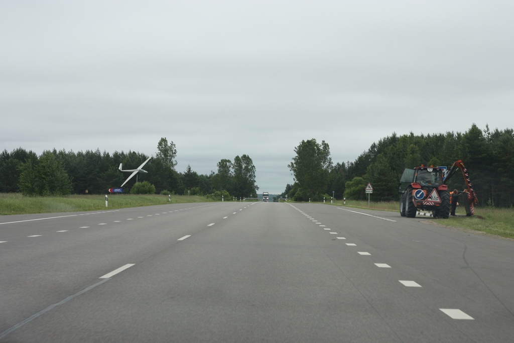 A4 road near Paluknys, Trakai district, Lithuania.